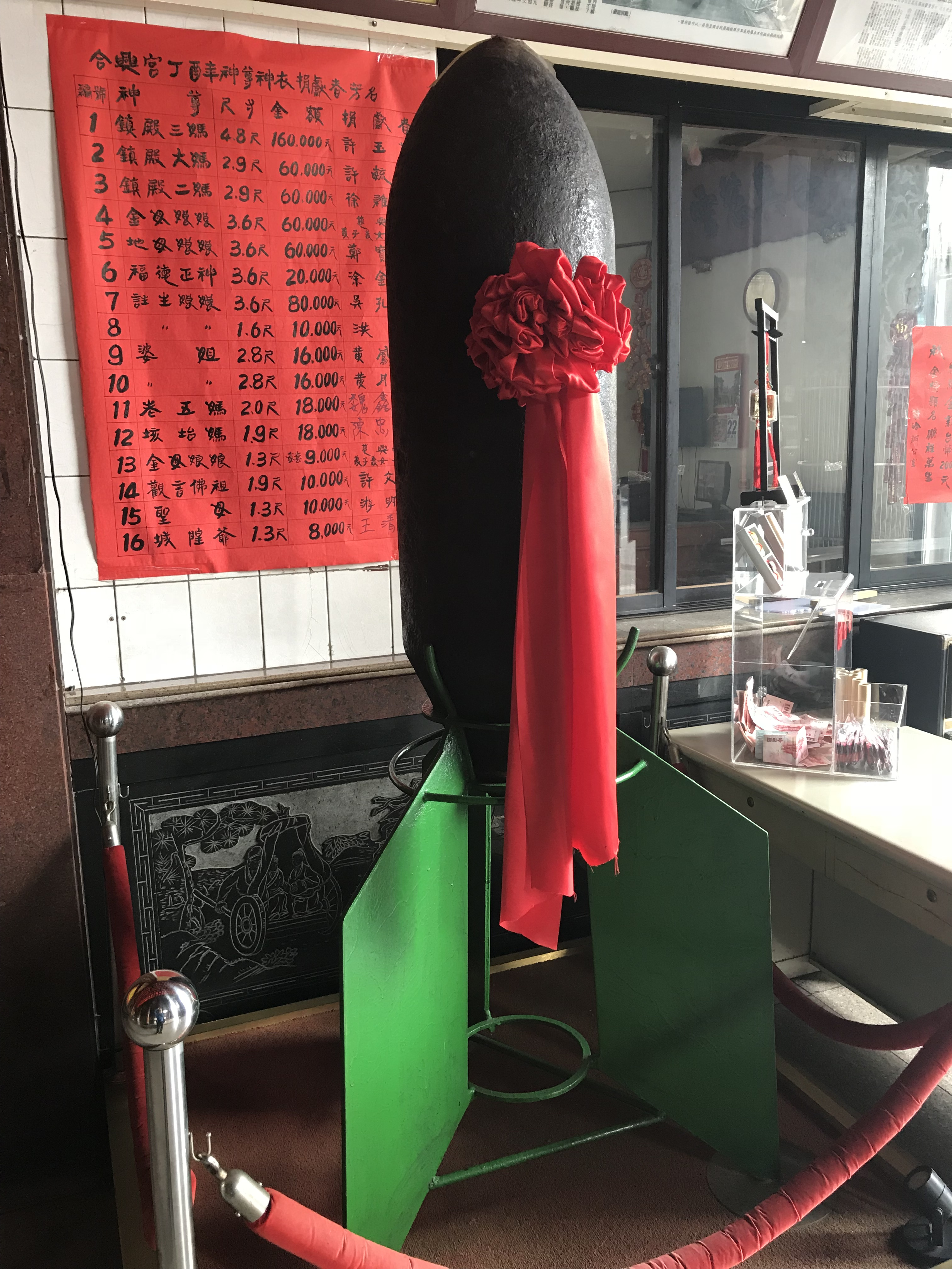 AN-M64 Bomb in Pitou He-Sing Temple of Taiwan.